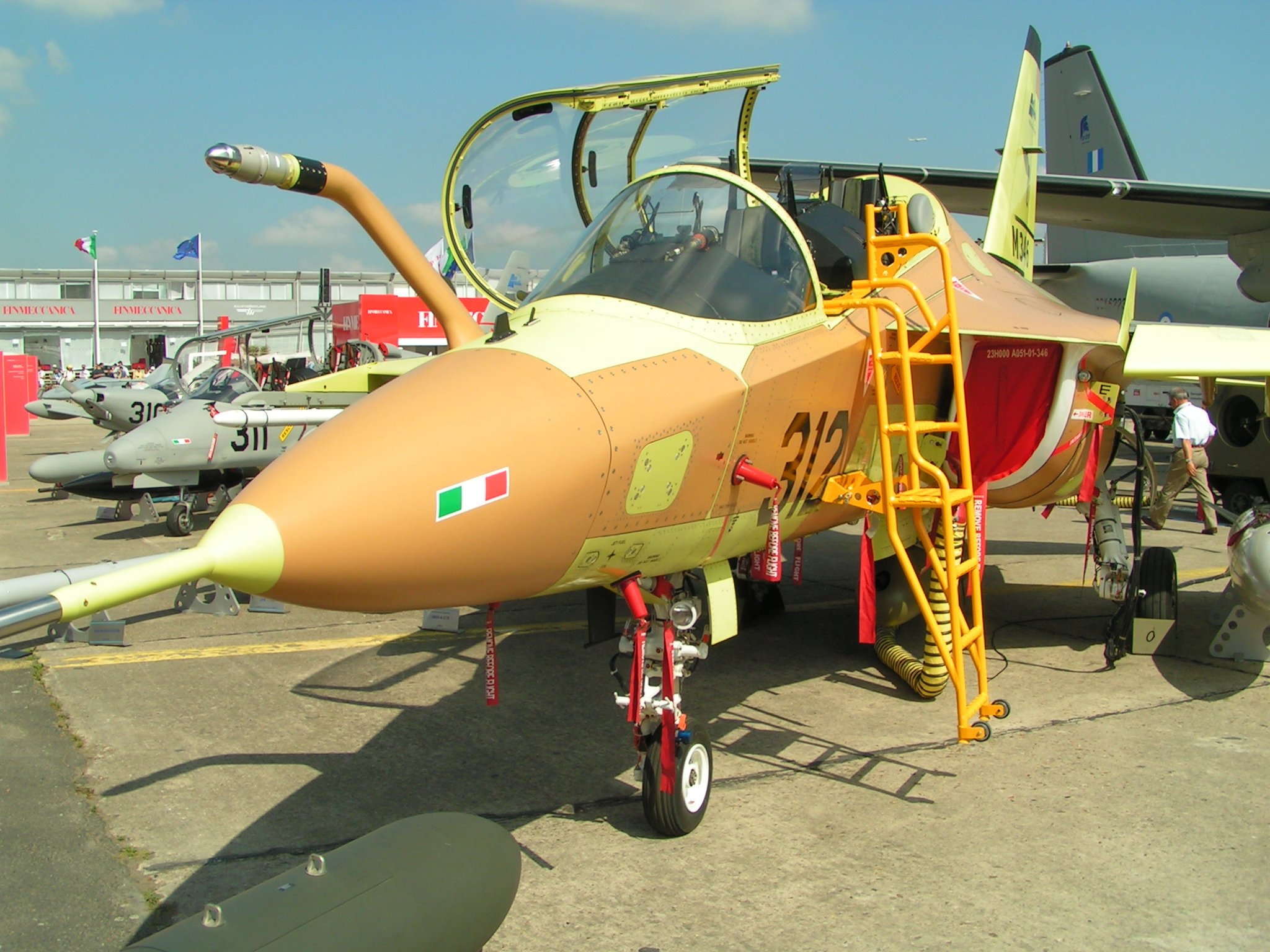 Second Prototype M-346 at Le Bourget 2005 - airshow. Picture taken by Olaf Bichel.